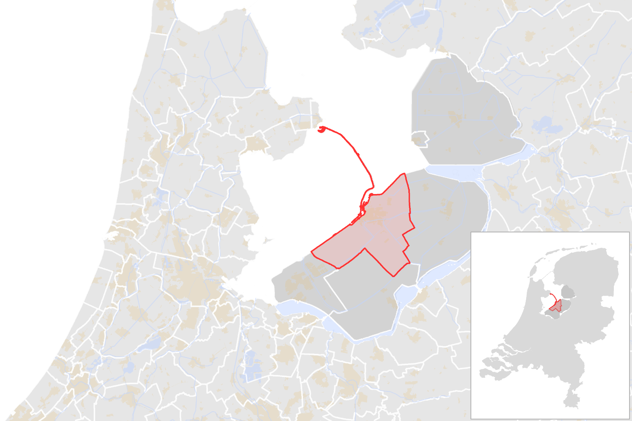 Locator map showing municipality boundary of one of the 390 Dutch municipalities (as of 2016)